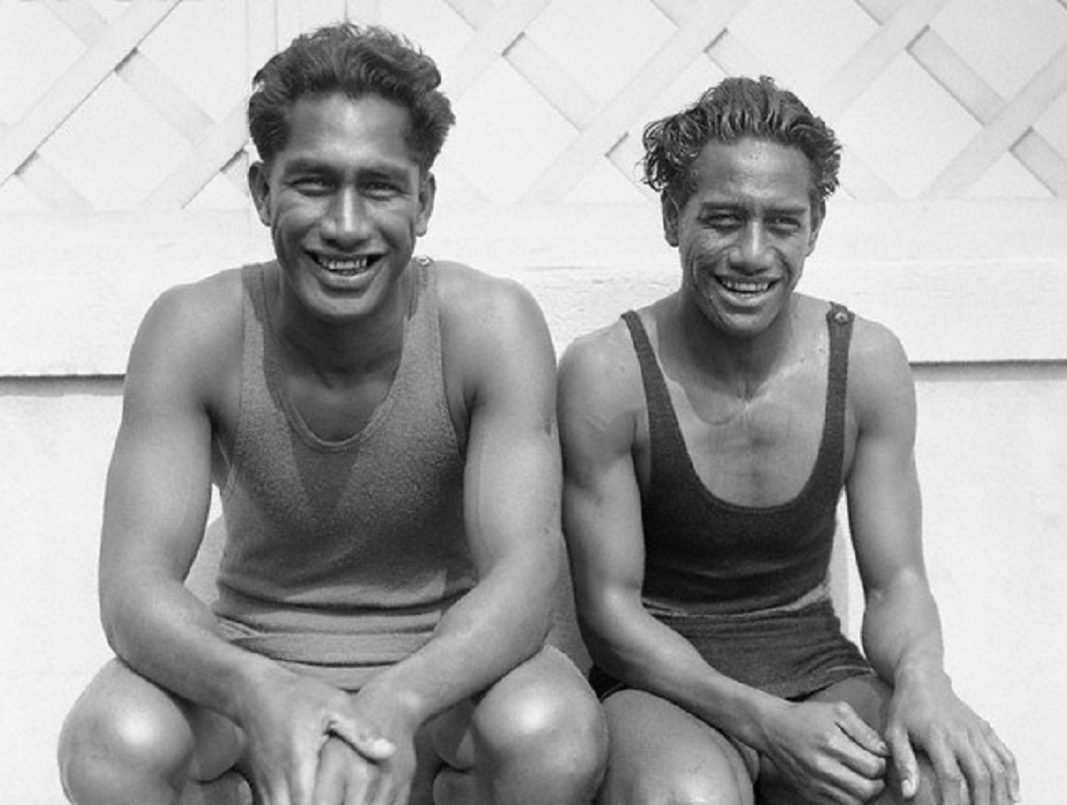 Duke Kahanamoku Sitting with his Brother